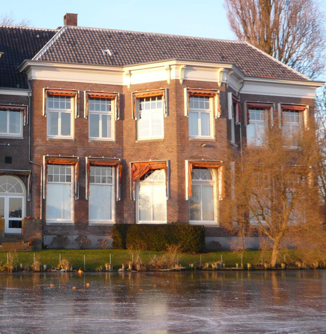 Buitenrust, summer home on the Spaarne formerly owned by Willem Willink, Buitenrustweg, Haarlem.